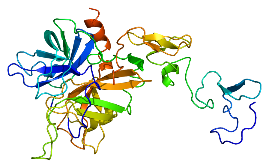 Structure of the PROC protein. Based on PyMOL rendering of PDB 1aut.